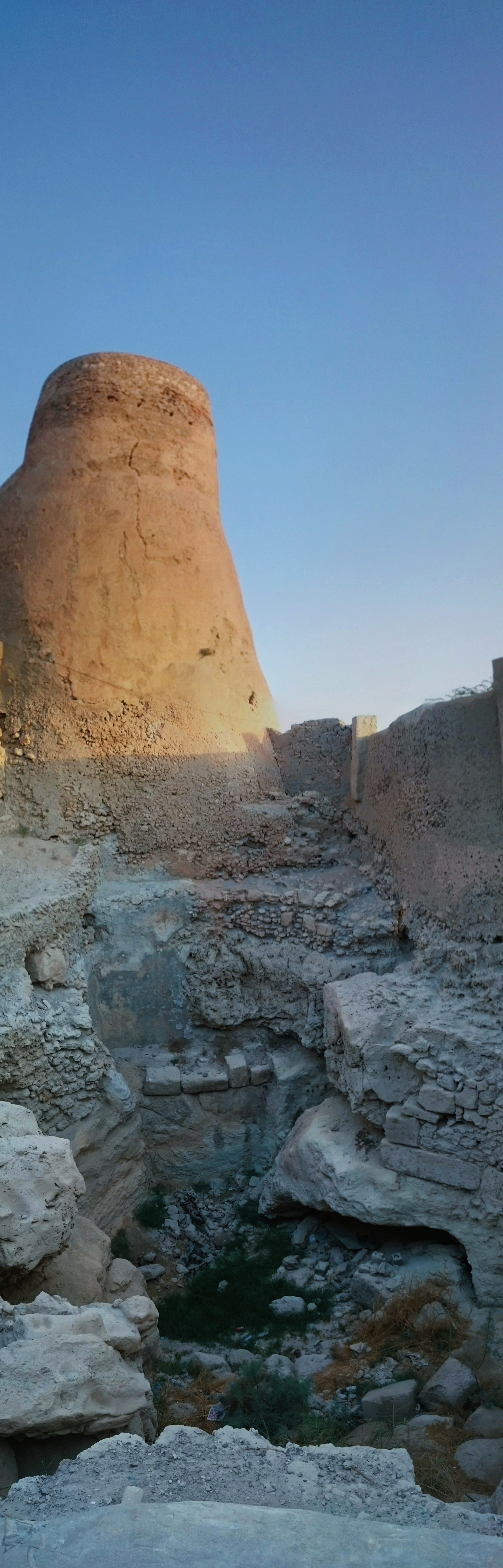 view of the dried Ayyin Al-Aoudda water well and part of Tarout castle, Tarout island, Qatif, Saudi Arabia